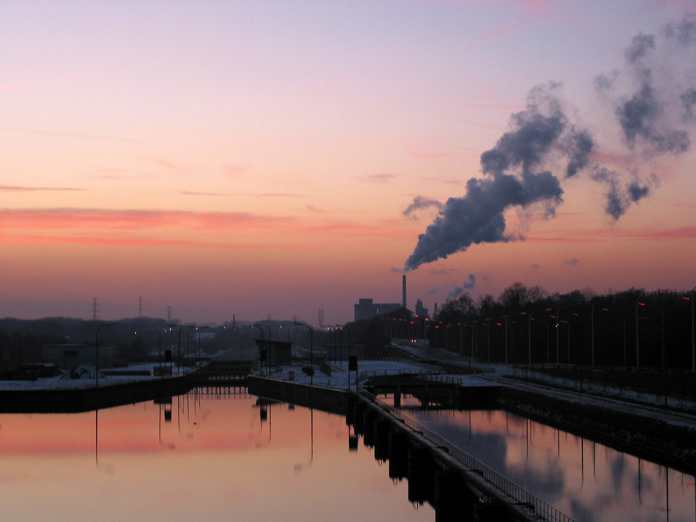 Obourg (Belgium), the cementery in the sunset.